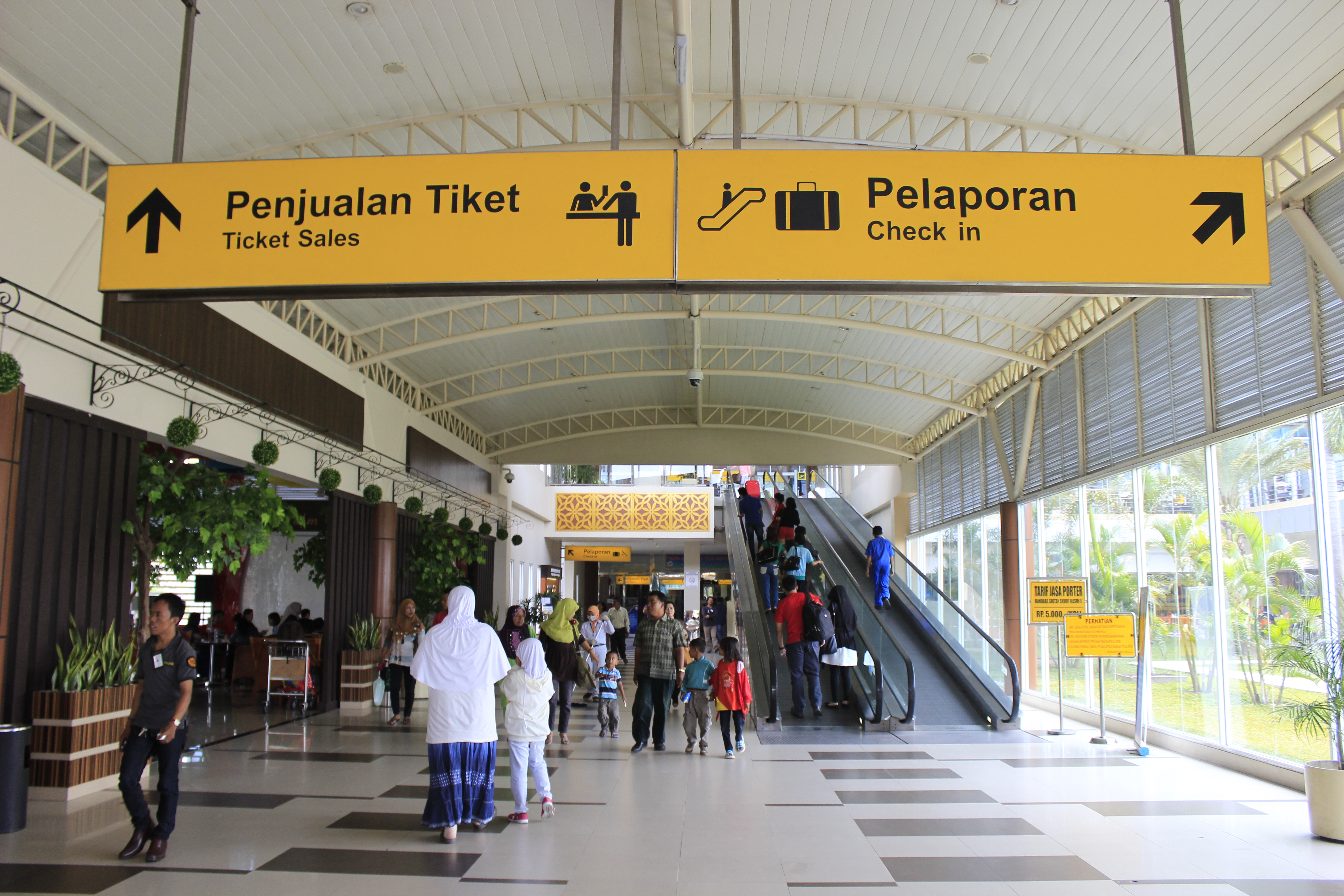 Departure hall of Sultan Syarif Qasim II International Airport, Pekanbaru.